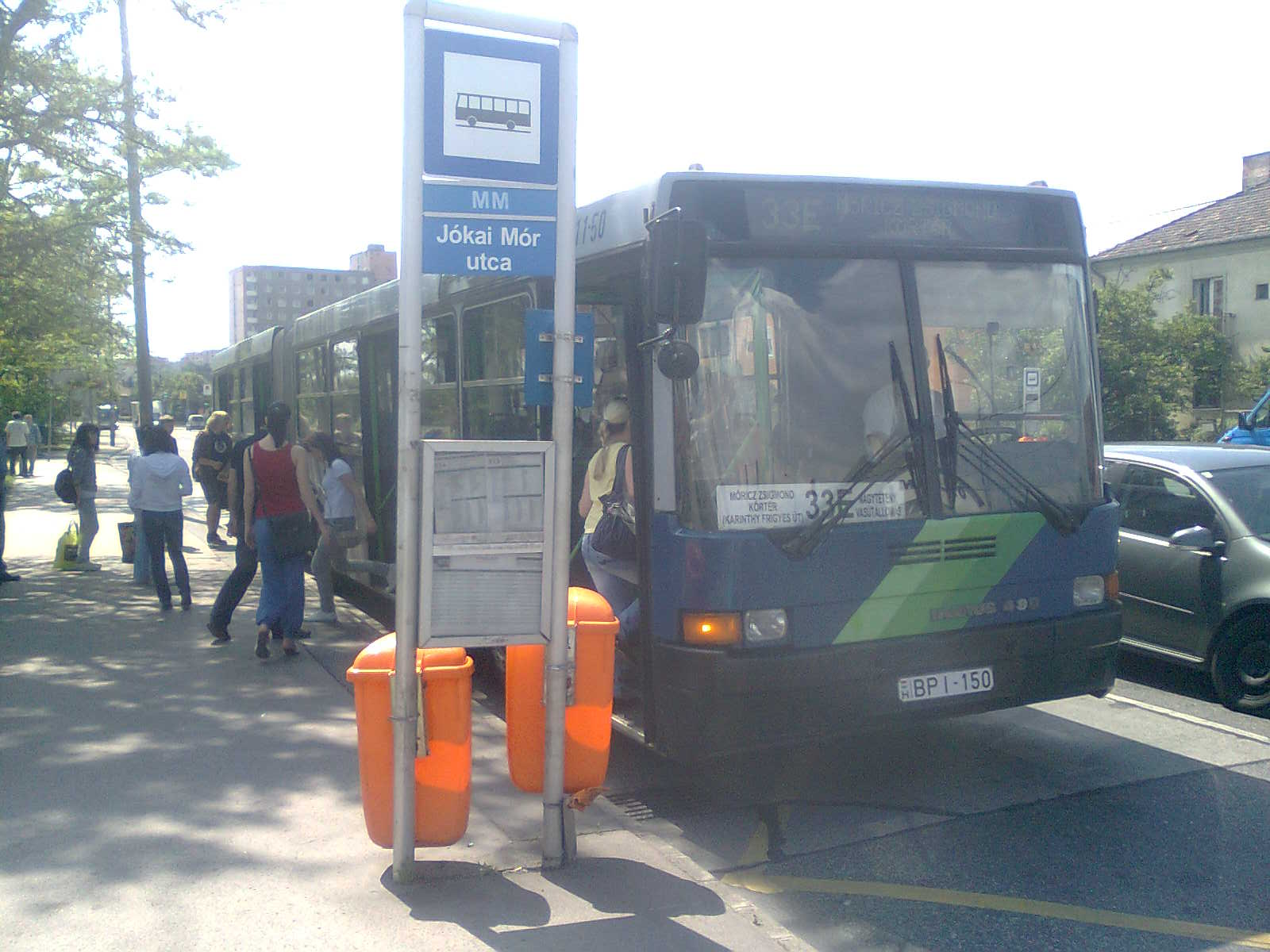 33E bus, 33E busz